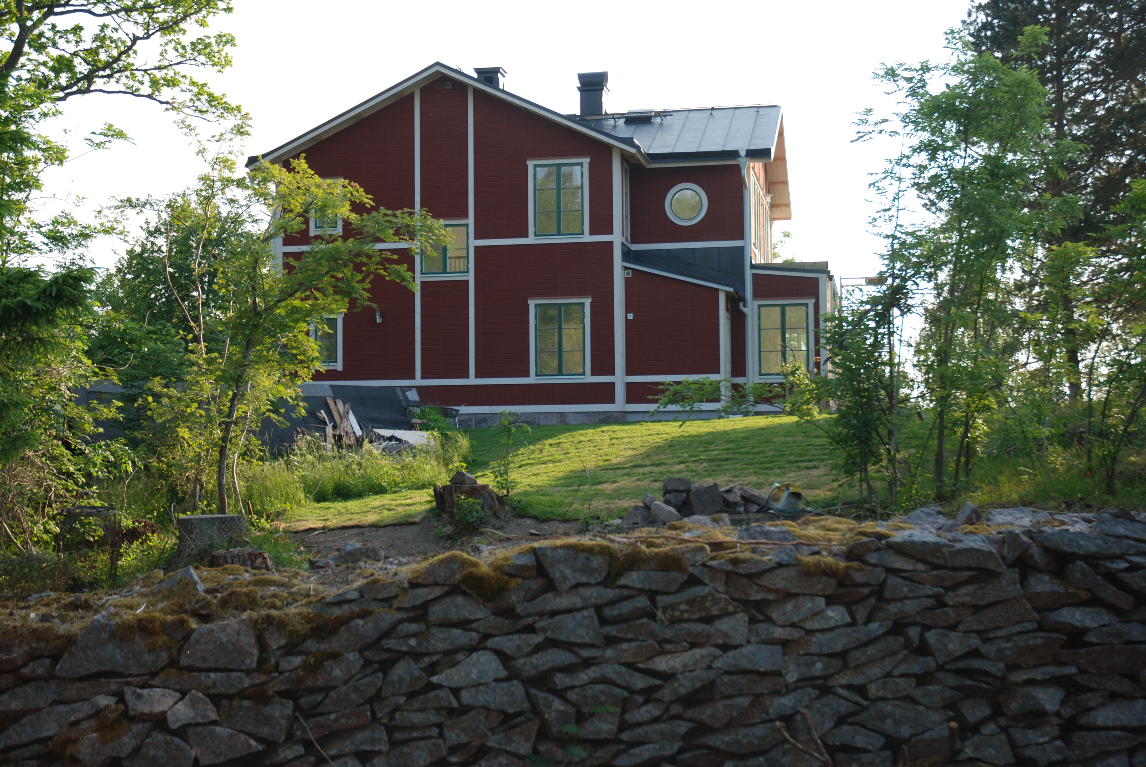 Vätöberg. The big villa near the harbour